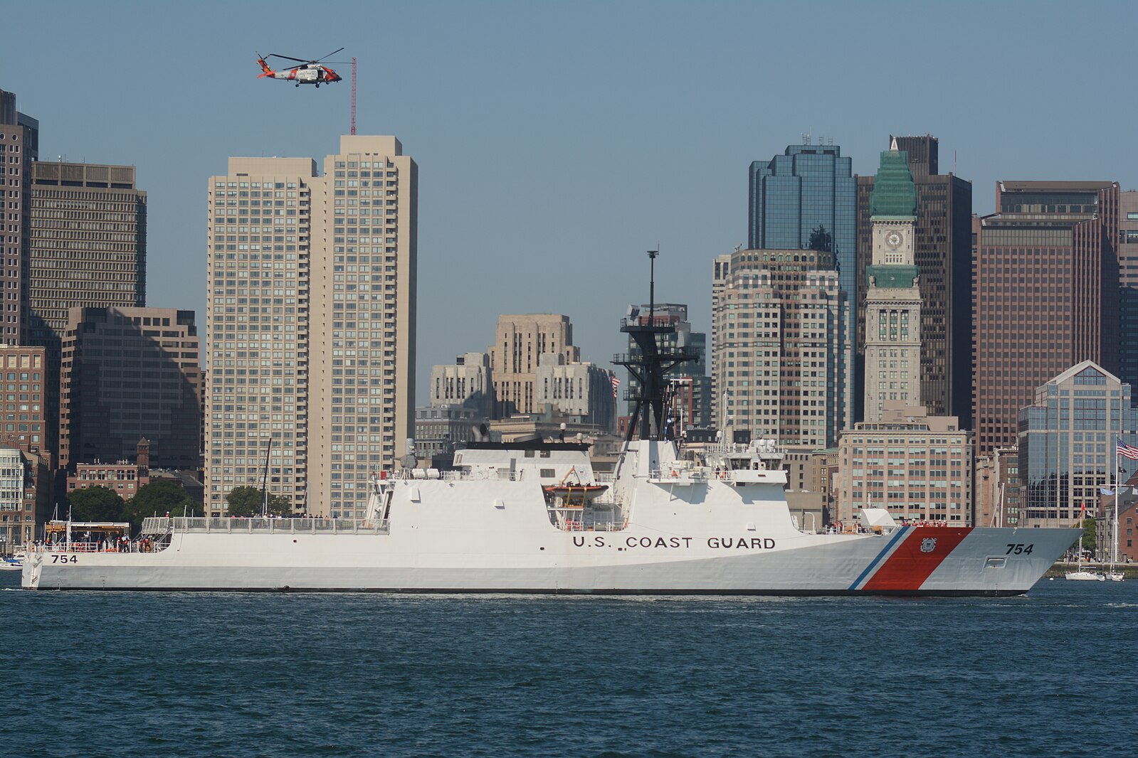 USCGC Joshua James arriving in Boston for her commissioning ceremony.